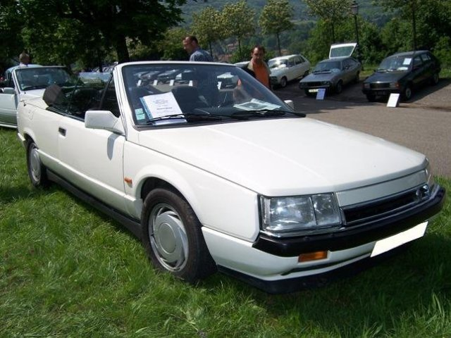 Renault_25_Cabriolet